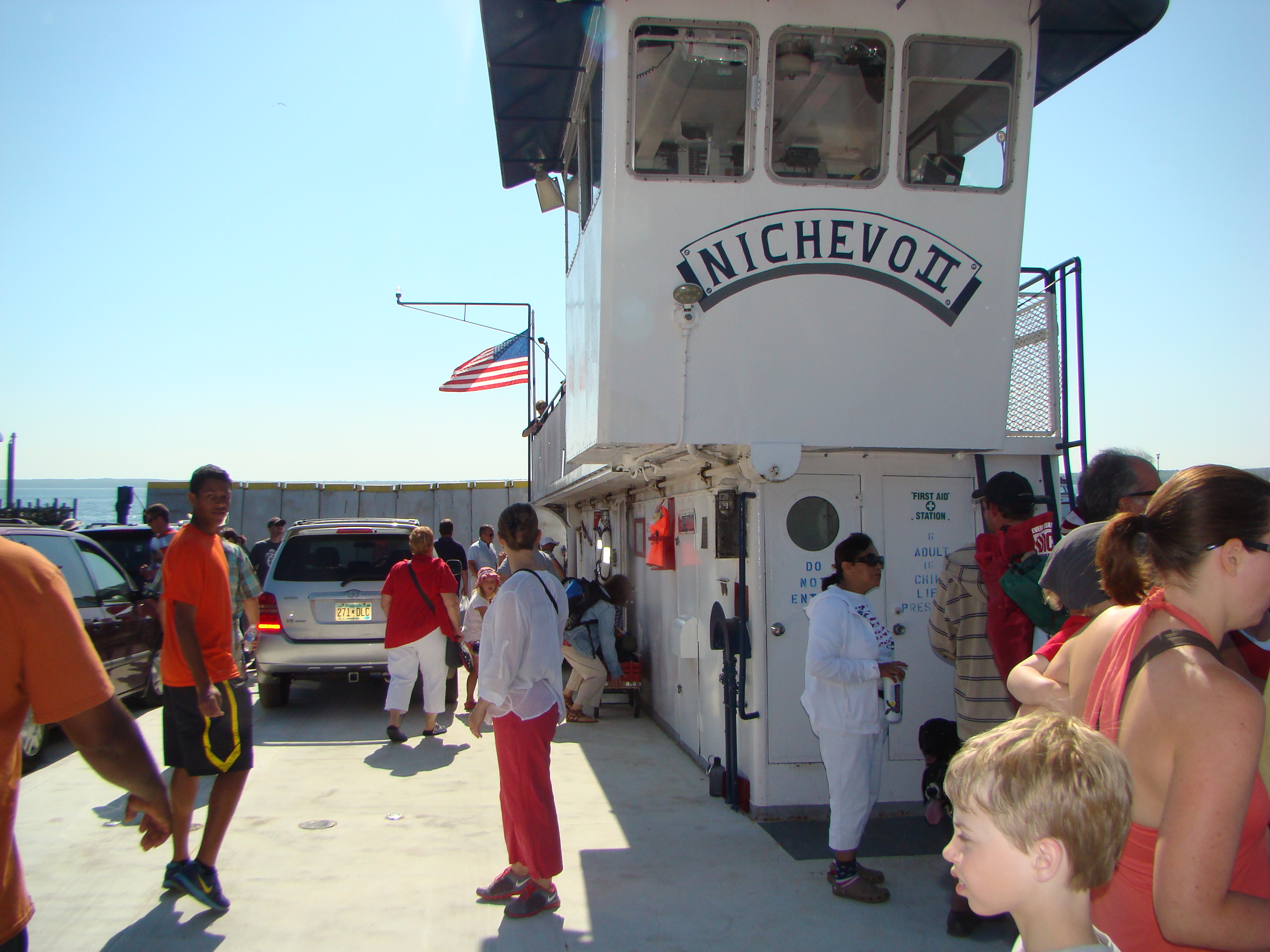 Phototograph of the Nichevo II ferry boat, about to leave for Madeline Island, Wisconsin. Nichevo means "Nothing" in the Russian Language.